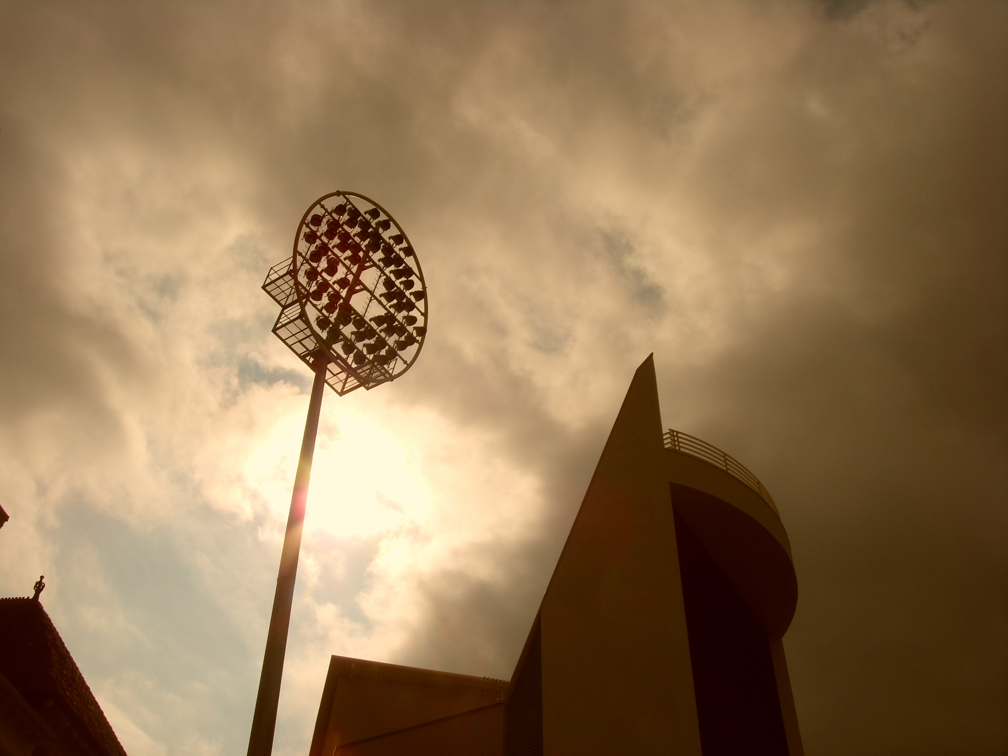 Floodlighhts at Trent Bridge Cricket Ground